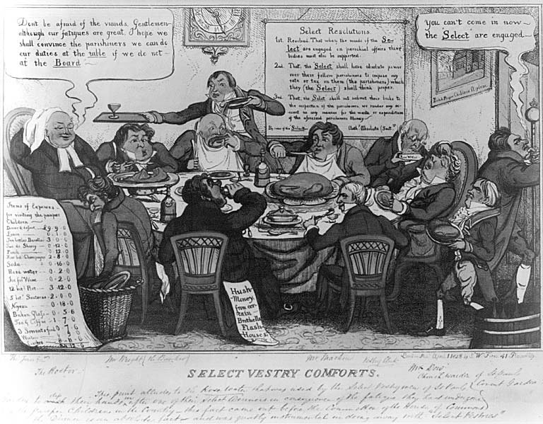 Title: Select vestry comforts Abstract: "Eight of the select vestry of St. Paul's, Covent Garden, dine in the Vestry Room, while the beadle blocks the doorway on the extreme right ..." (Source: George) Physical description: 1 print : engraving, coloured. Notes: Thos Jones, fect.; Forms part of: British Cartoon Prints Collection (Library of Congress).; This record contains unverified data from George.